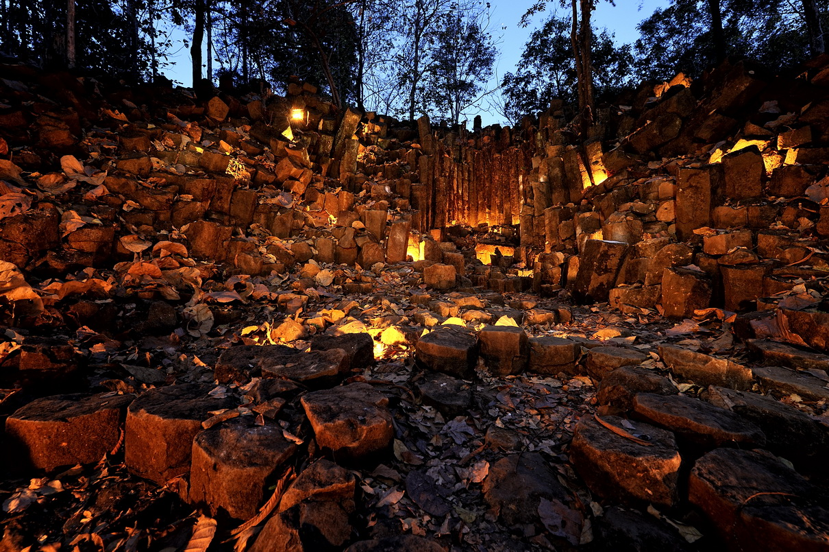 Wiang Kosai National Park1